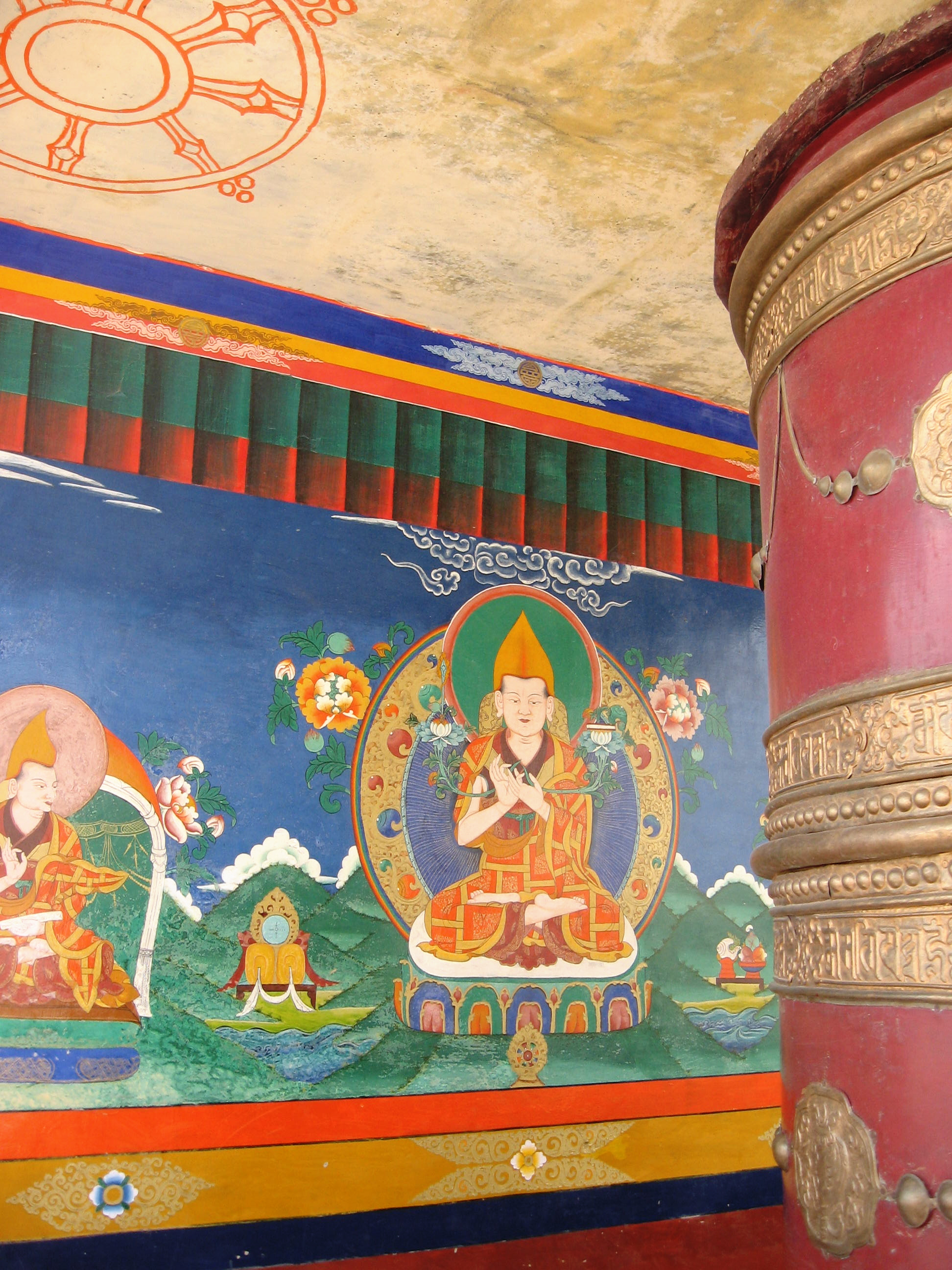 Tsong_khapa_with_prayer_wheel, Thikse Gompa